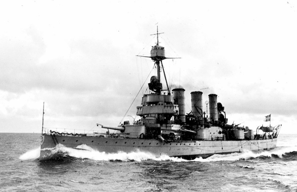 The Swedish coastal defence ship HMS Oscar II'.